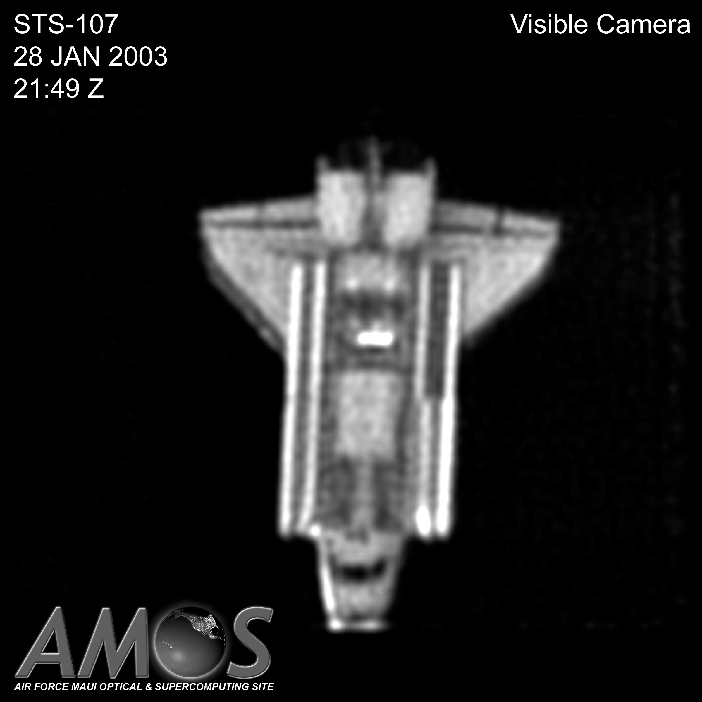 This image of Columbia was taken with a visible camera by the U.S. Air Force Maui Optical and Supercomputing Site (AMOS) four days before Columbia's reentry, as the spacecraft flew above the island of Maui in the Hawaiian Islands (JSC2003-E-13227)